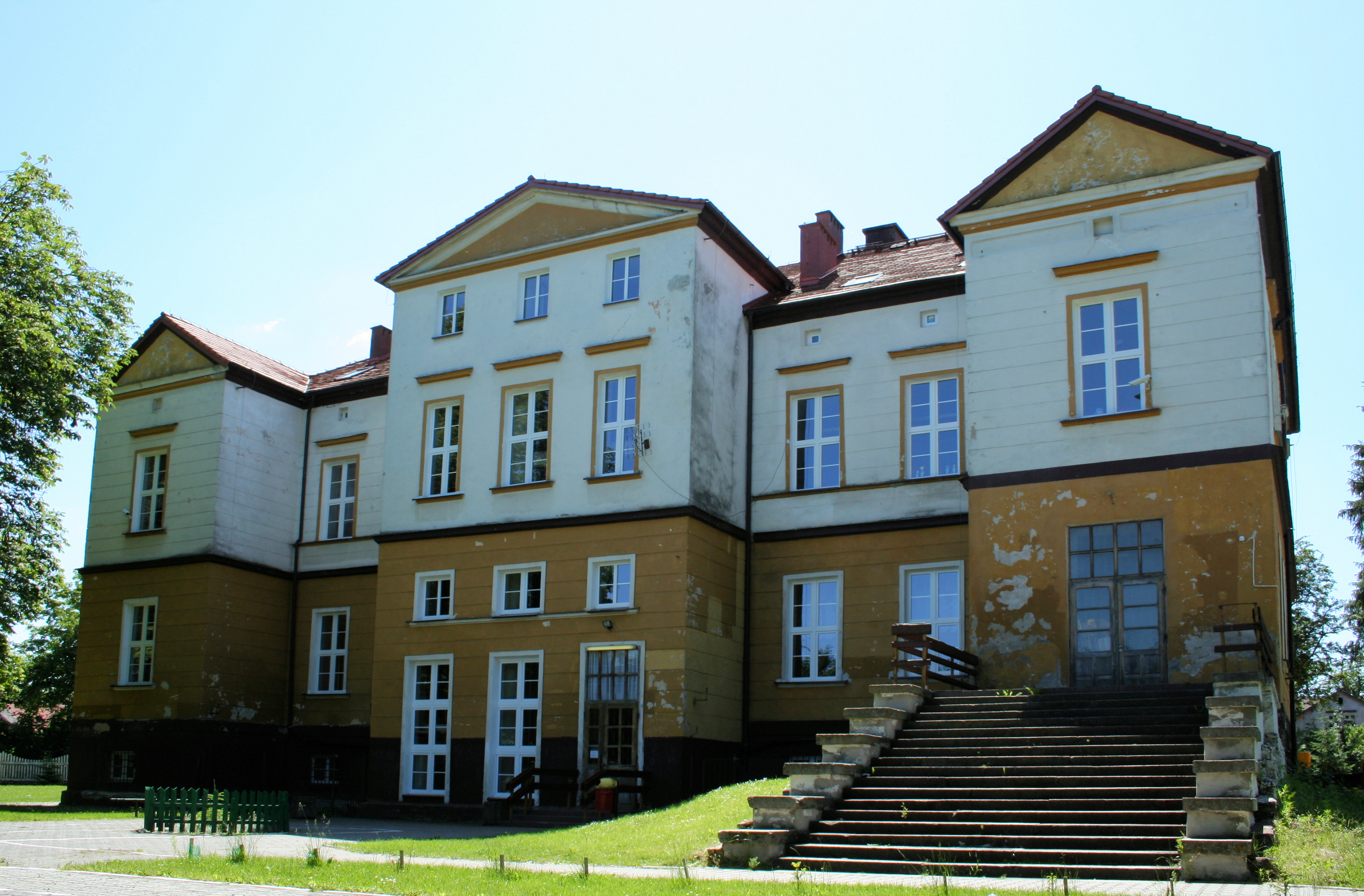 Palace in Zielin, West Pomeranian Voivodeship